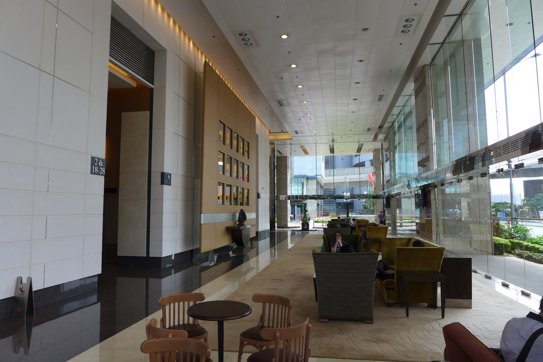 Skyline Tower Lobby